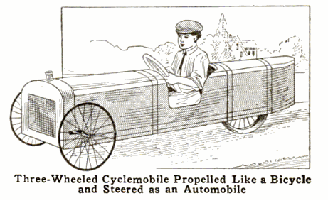 Cyclemobile_1913